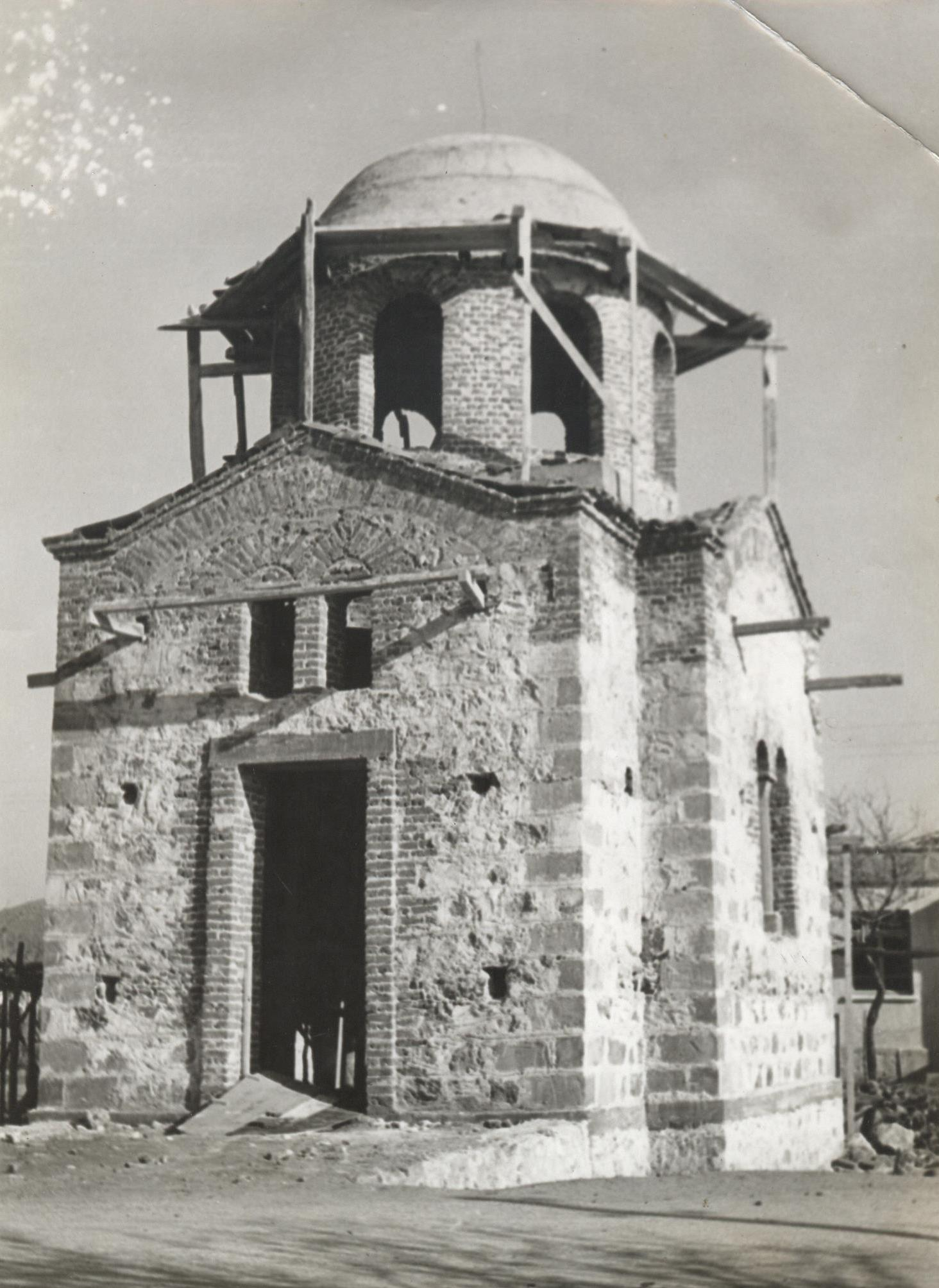 Building of Agia Marina Church in Sappes.